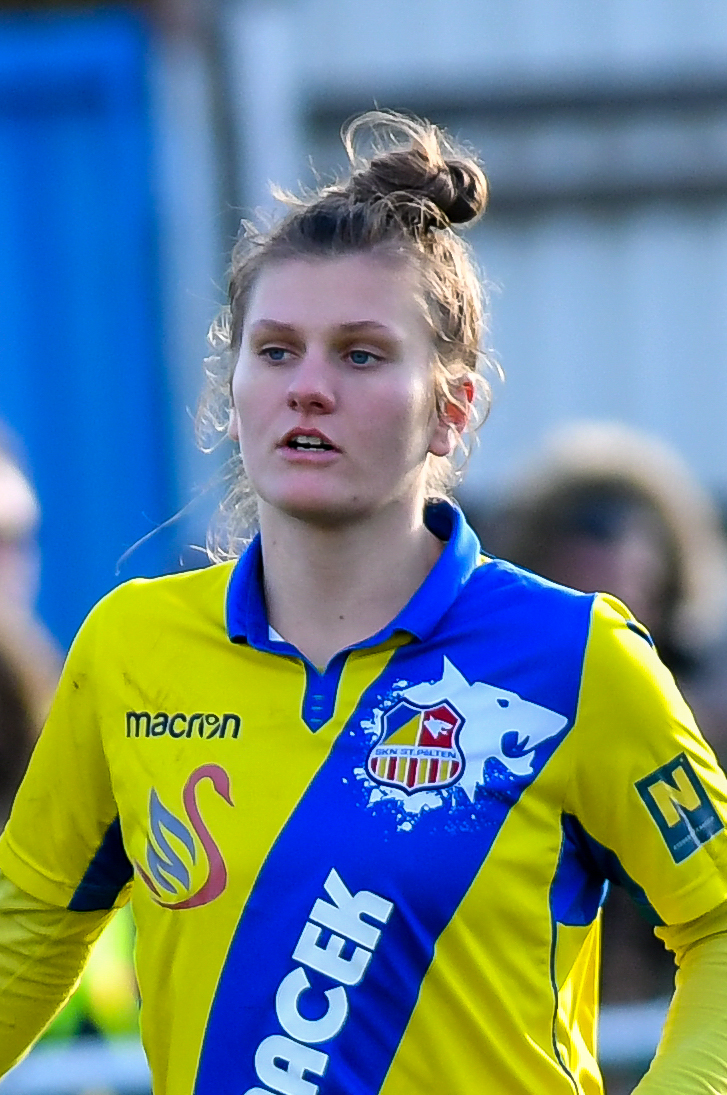 ÖFB Ladies-Cup 2017/18 Achtelfinalspiel USC Landhaus vs. SKN St. Pölten. Picture shows Viktoria Pinther (10, SKN)